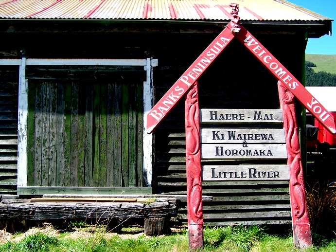 Welcome to Little River Banks Peninsula - New Zealand